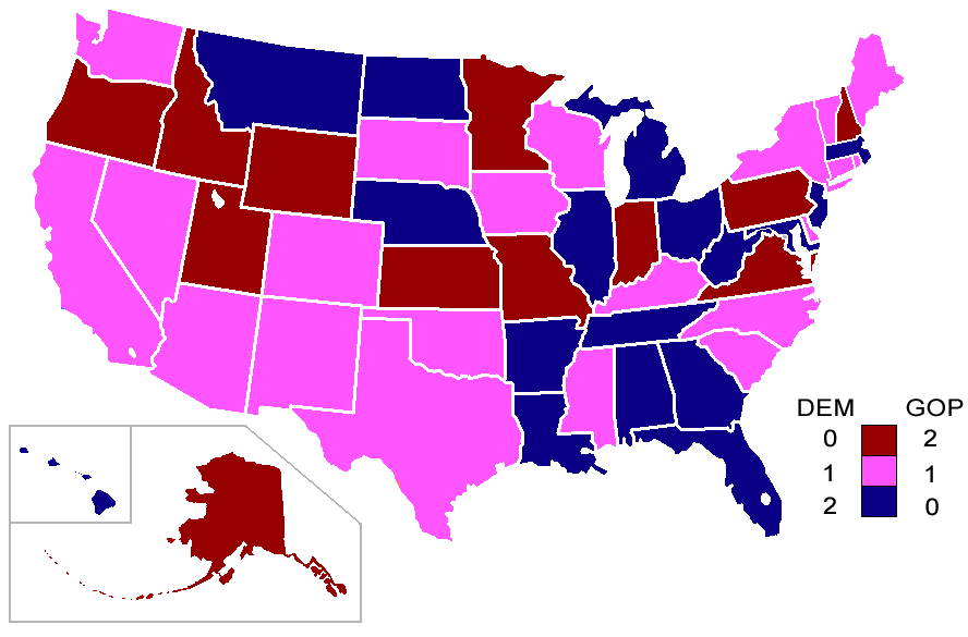 Map showing Senate composition by party at the start of the 100th Congress